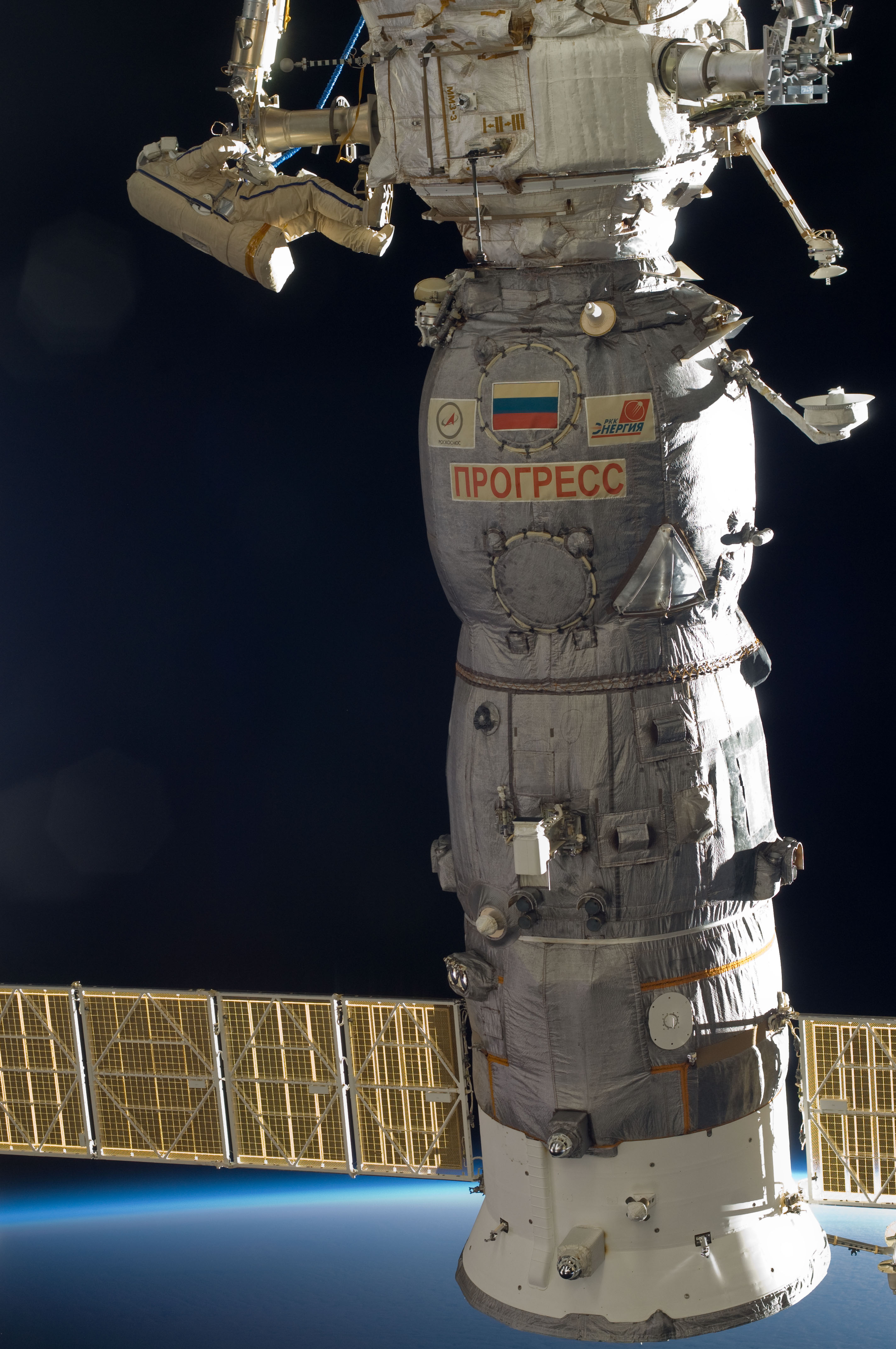 Russian cosmonauts Sergei Volkov and Alexander Samokutyaev (out of frame), both Expedition 28 flight engineers, attired in Russian Orlan spacesuits, participate in a session of extravehicular activity (EVA) on the Russian segment of the International Space Station. During the six-hour, 23-minute spacewalk, Volkov and Samokutyaev moved a cargo boom from one airlock to another, installed a prototype laser communications system and deployed an amateur radio micro-satellite.